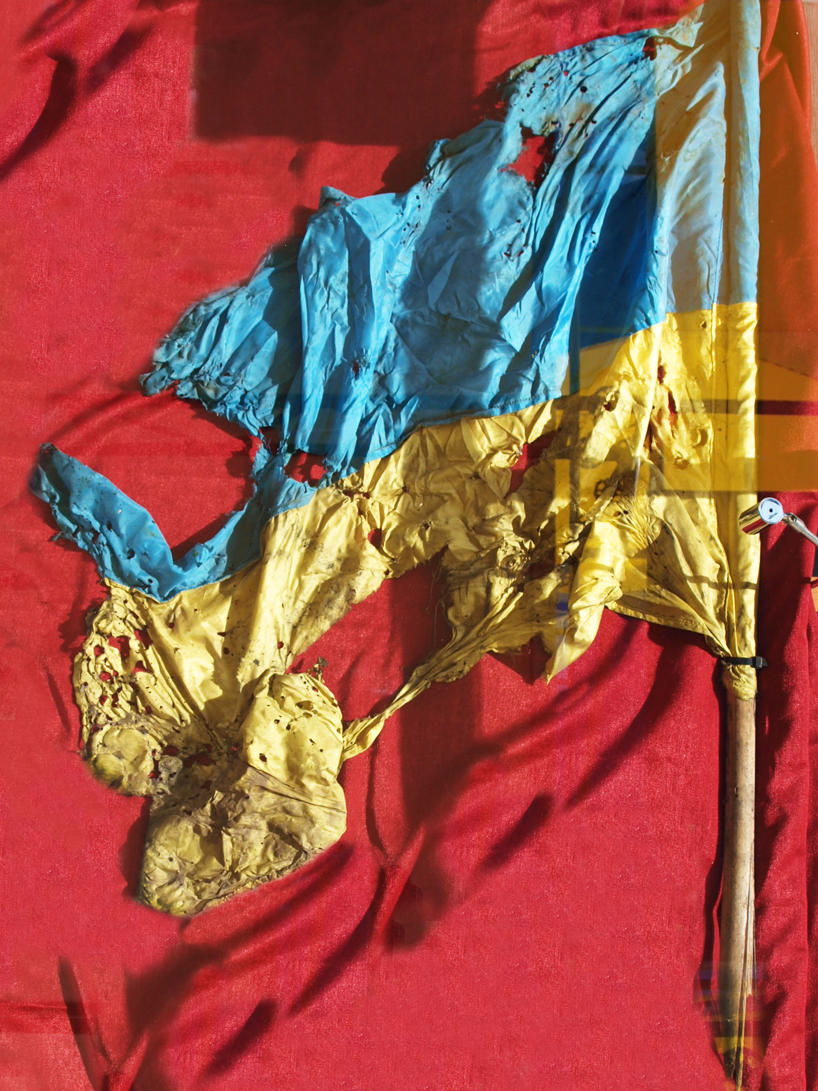 Ukrainian flag from Ilovaisk battlefield Exhibition Ukrainian flags-relics at St. Sophia Square in Kyiv (23-25 August 2015)